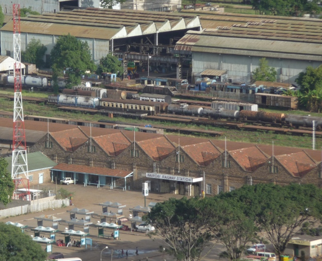 Nairobi Railway Station